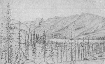 "View of Tenaya Lake showing Cathedral Peak", sketch by John Muir, published in 'My First Summer in the Sierra' (1911).